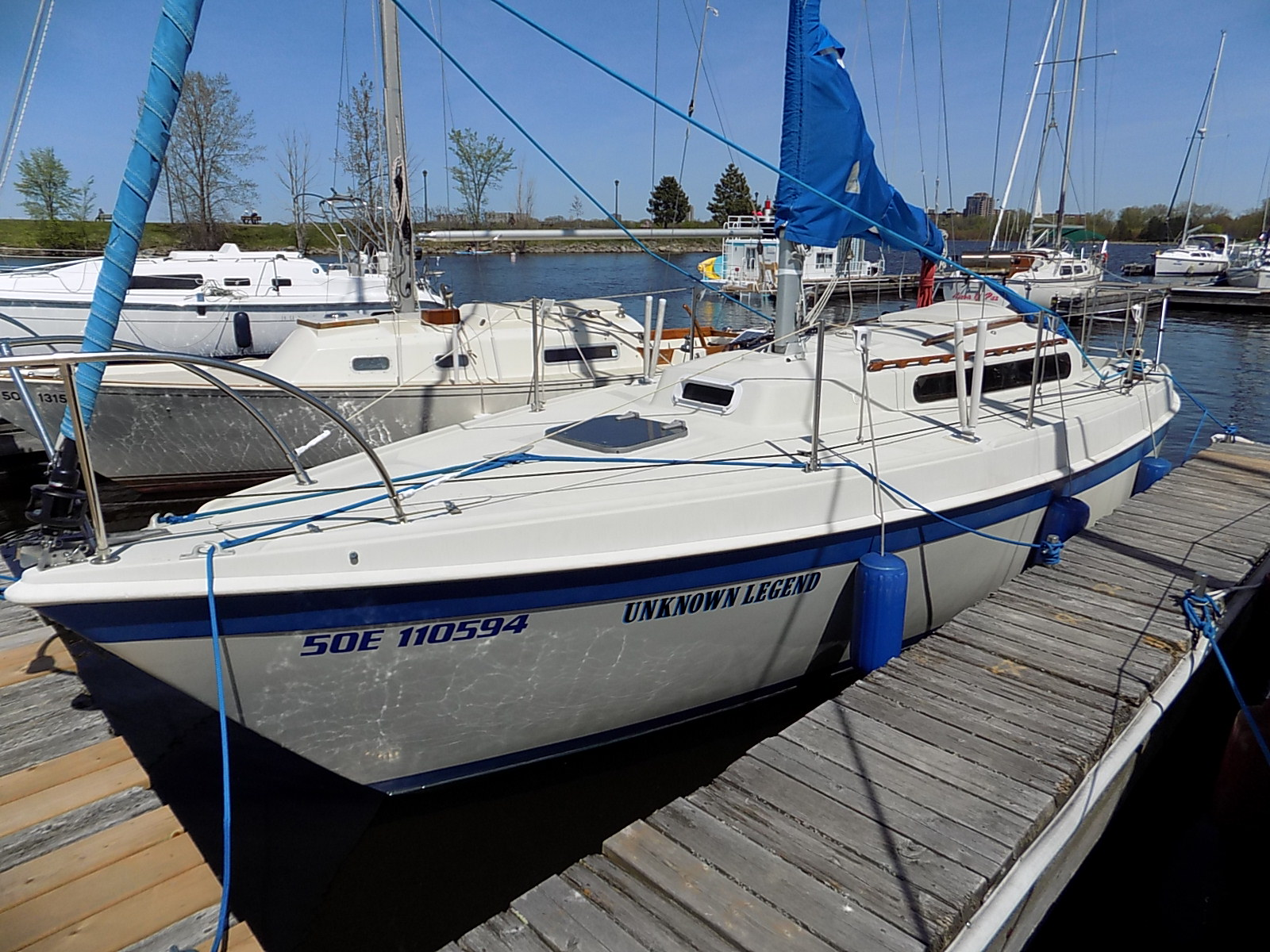 A Tanzer 8.5 sailboat named Unknown Legend.